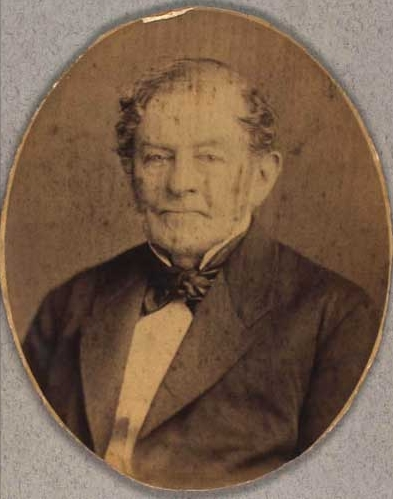 Josias von Raben-Levetzau, Danish landowner and chamberlain